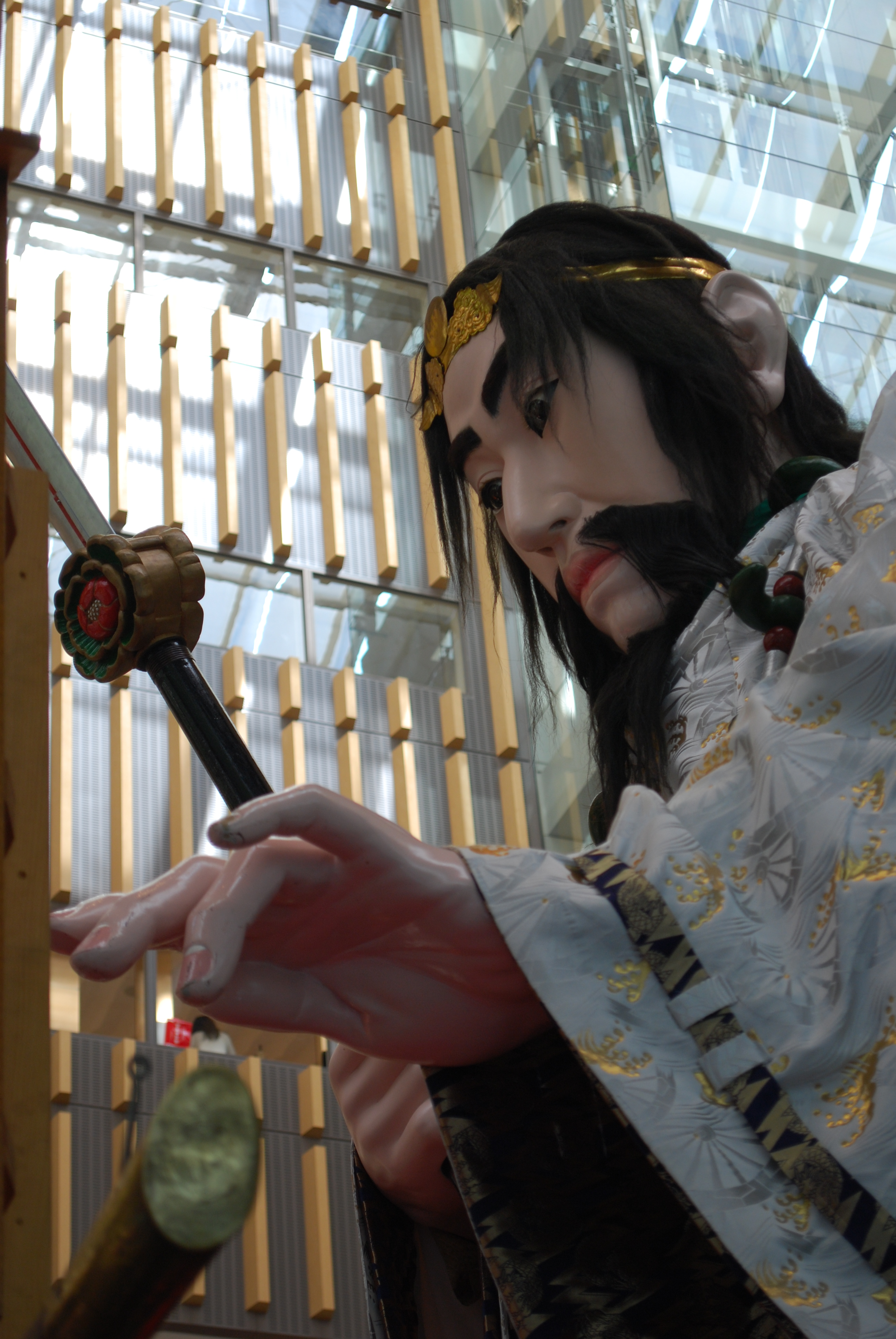 The large doll of the festival of Sawara,tajyuku,izanagino-mikoto,katori-city,japan